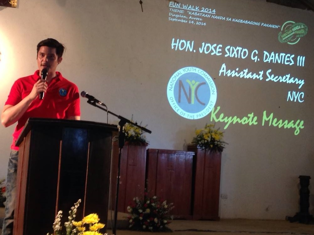 Jose Sixto Dantes III (also known as Dingdong Dantes) at the National Youth Commission’s Disaster Risk Reduction and Management (DRRM) Awareness event in Dingalan, Aurora, September 15, 2014.